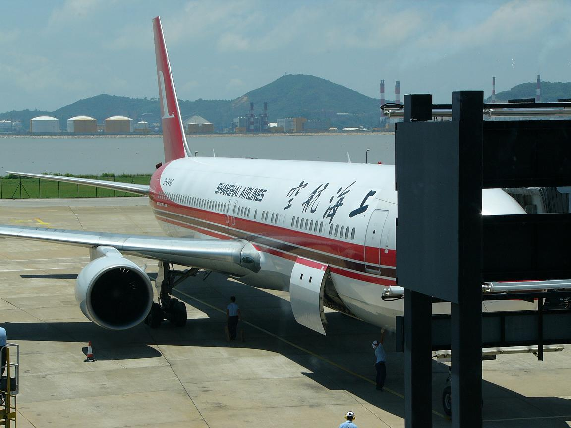 Shanghai Airlines Boeing B767-300 Reg No. B-2498 Photo by Ellery Cheng in Macau Int'l Airport. Jul. 25 2004